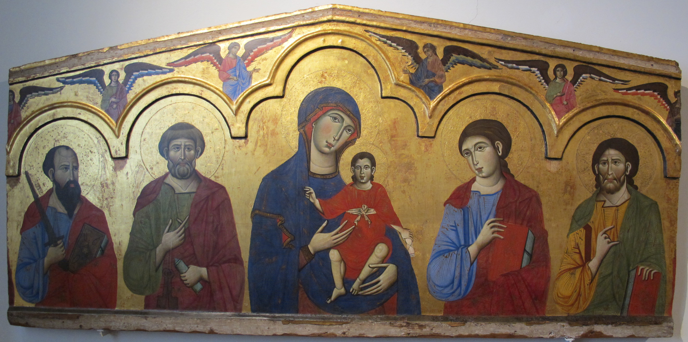 Sculpture in the National Pinacotheque, Siena